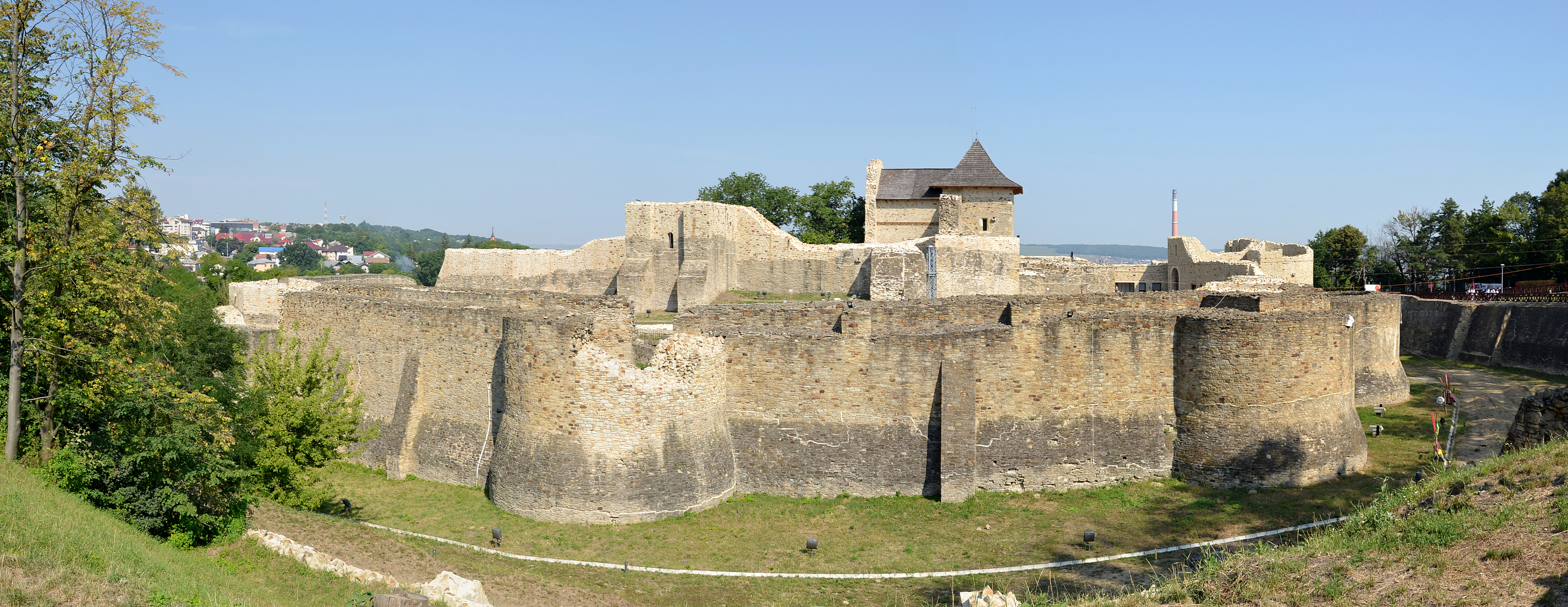 Seat Fortress of Suceava – panoramic view.